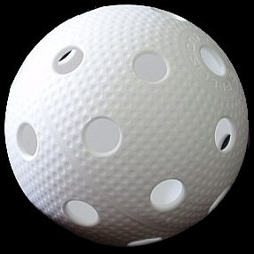 A cropped version of Image:Floorball ball.jpg, please check for description there.